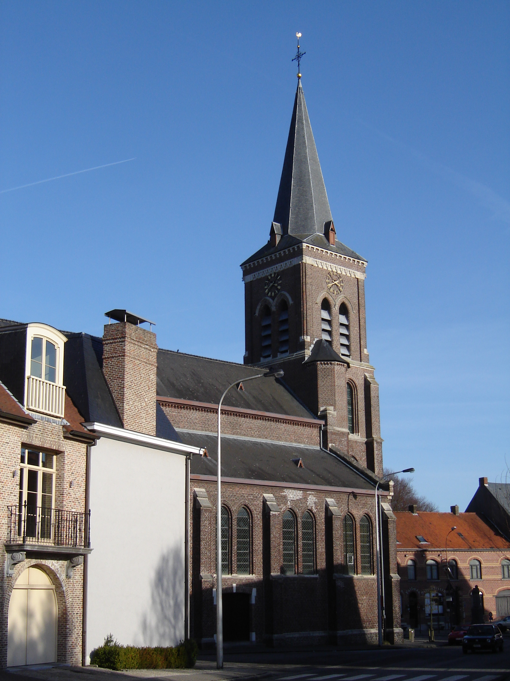 Church of Saint Peter in Bevere. Bevere, Oudenaarde, East Flanders, Belgium